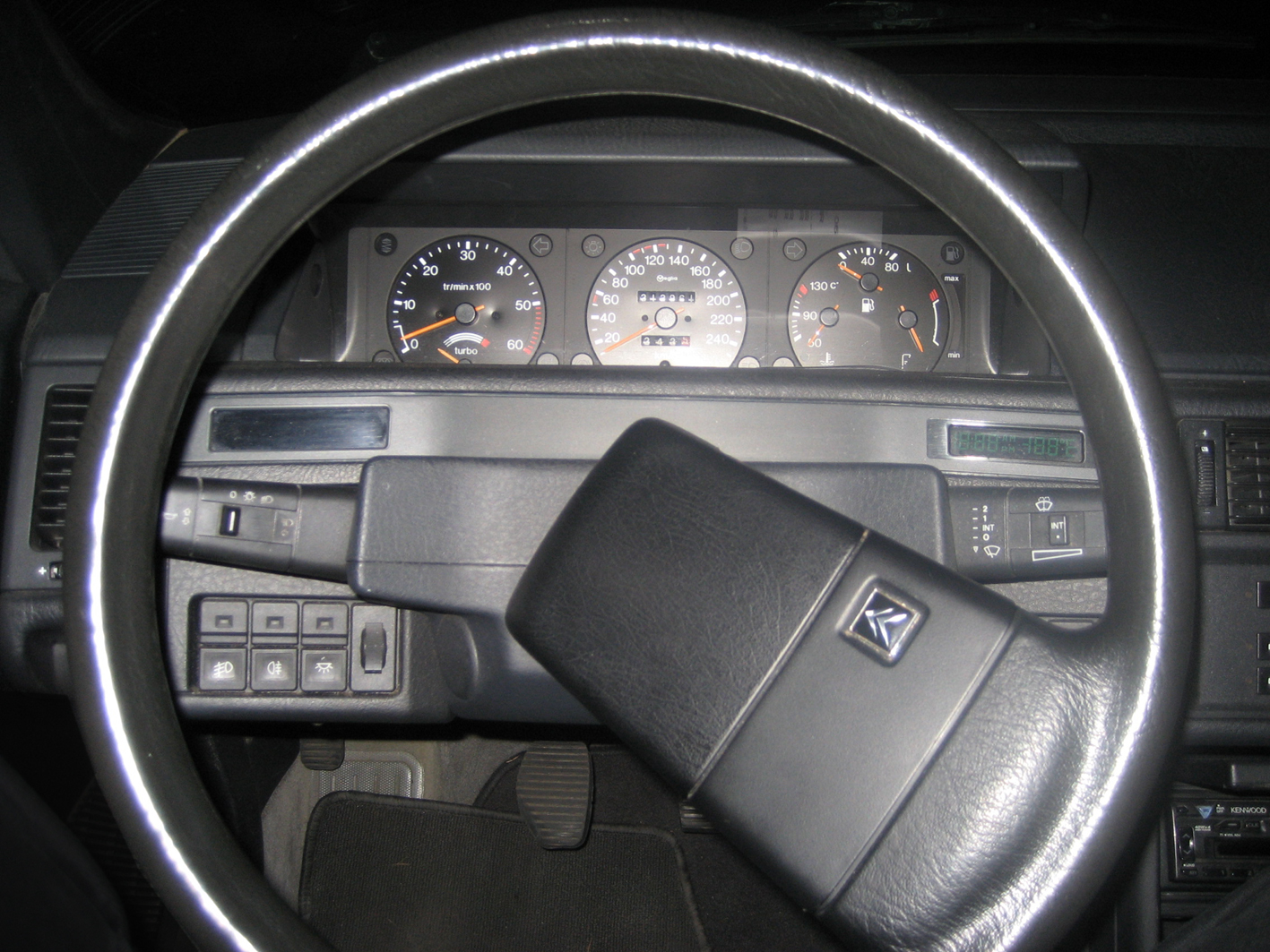 Cockpit of a Citroen XM (1994, steering wheel from 1992)